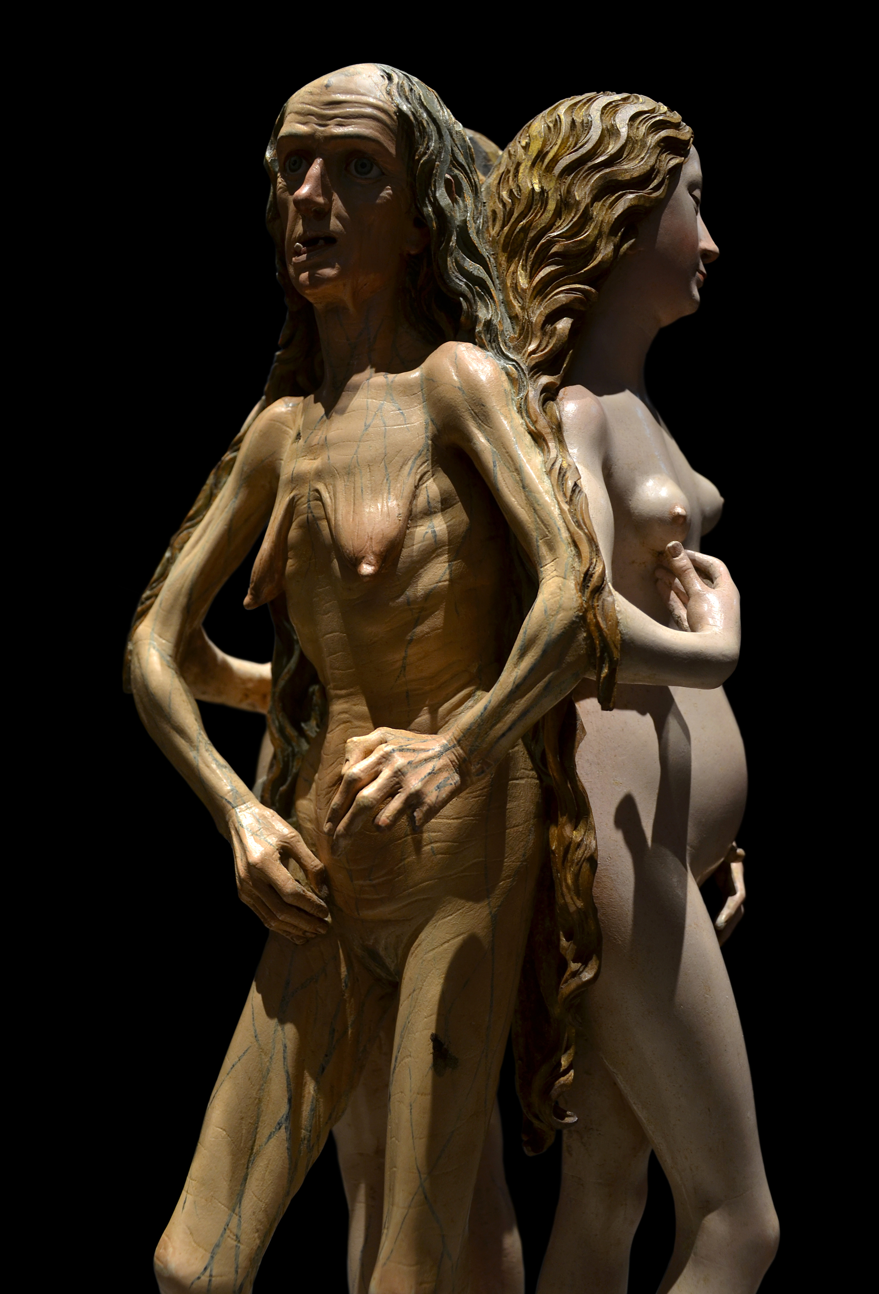 Allegory of Transience, so-called "Vanitas Group", by Michel Erhart or Jörg Syrlin, circa 1470-1480, painted limewood. Kunsthistorisches Museum, Vienna.